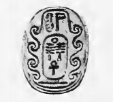 Picture of a scarab of pharaoh Djedankhra Montemsaf: "The good god, Djedankhra". 13th or 16th dynasty, Second intermediate period. Steatite, Petrie Museum UC11225.